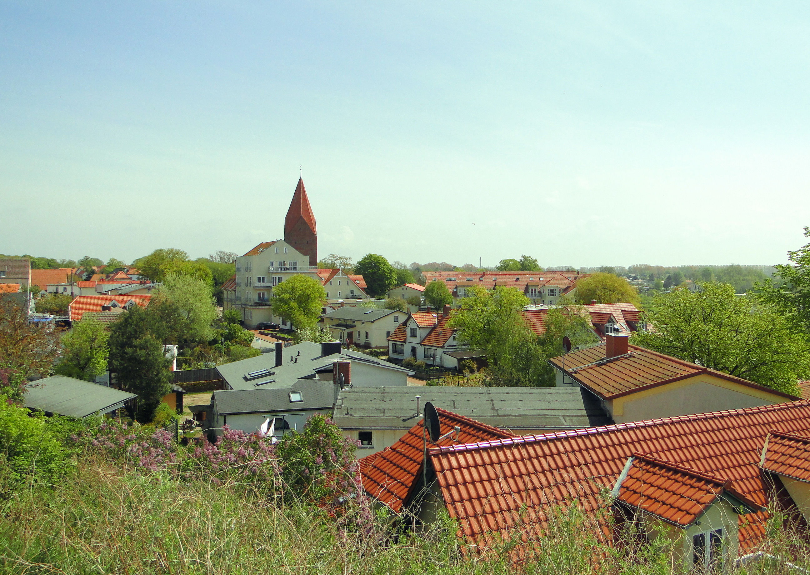 View from Schmiedeberg in Rerik, disctrict Bad Doberan, Mecklenburg-Vorpommern, Germany